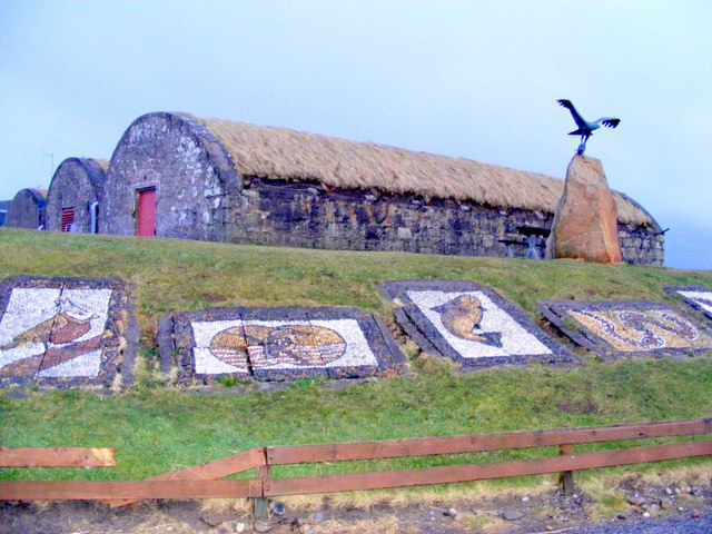 The Ice House at Tugnet, Spey Bay, Scotland